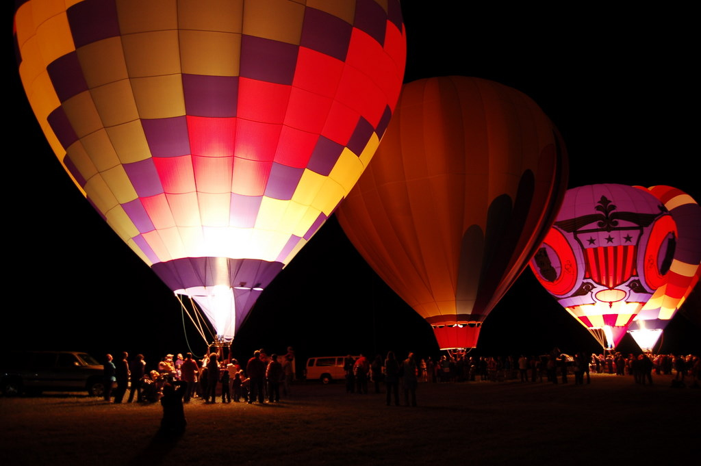 Balloon Glow Festus Missouri